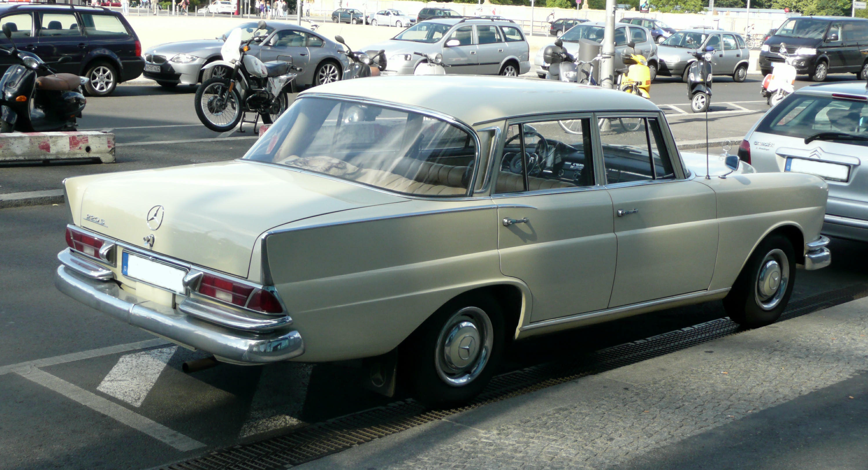 This image shows a Mercedes-Benz 220 S (W111).